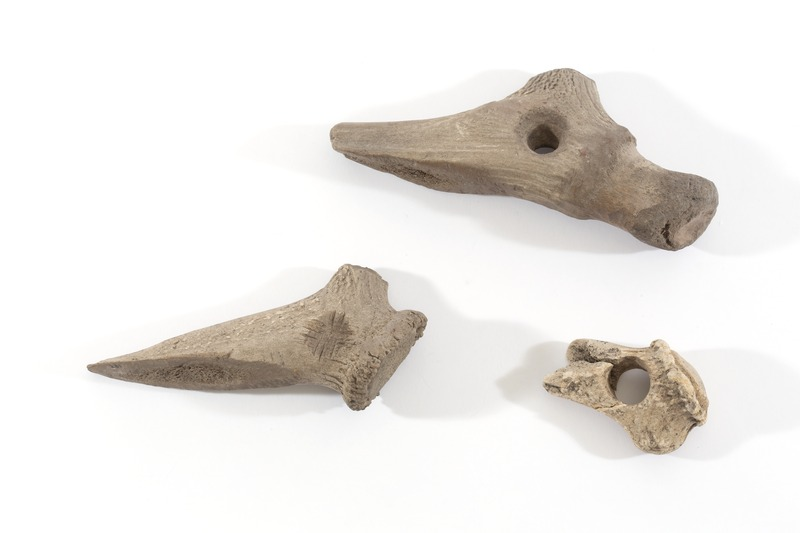 Antler hoes